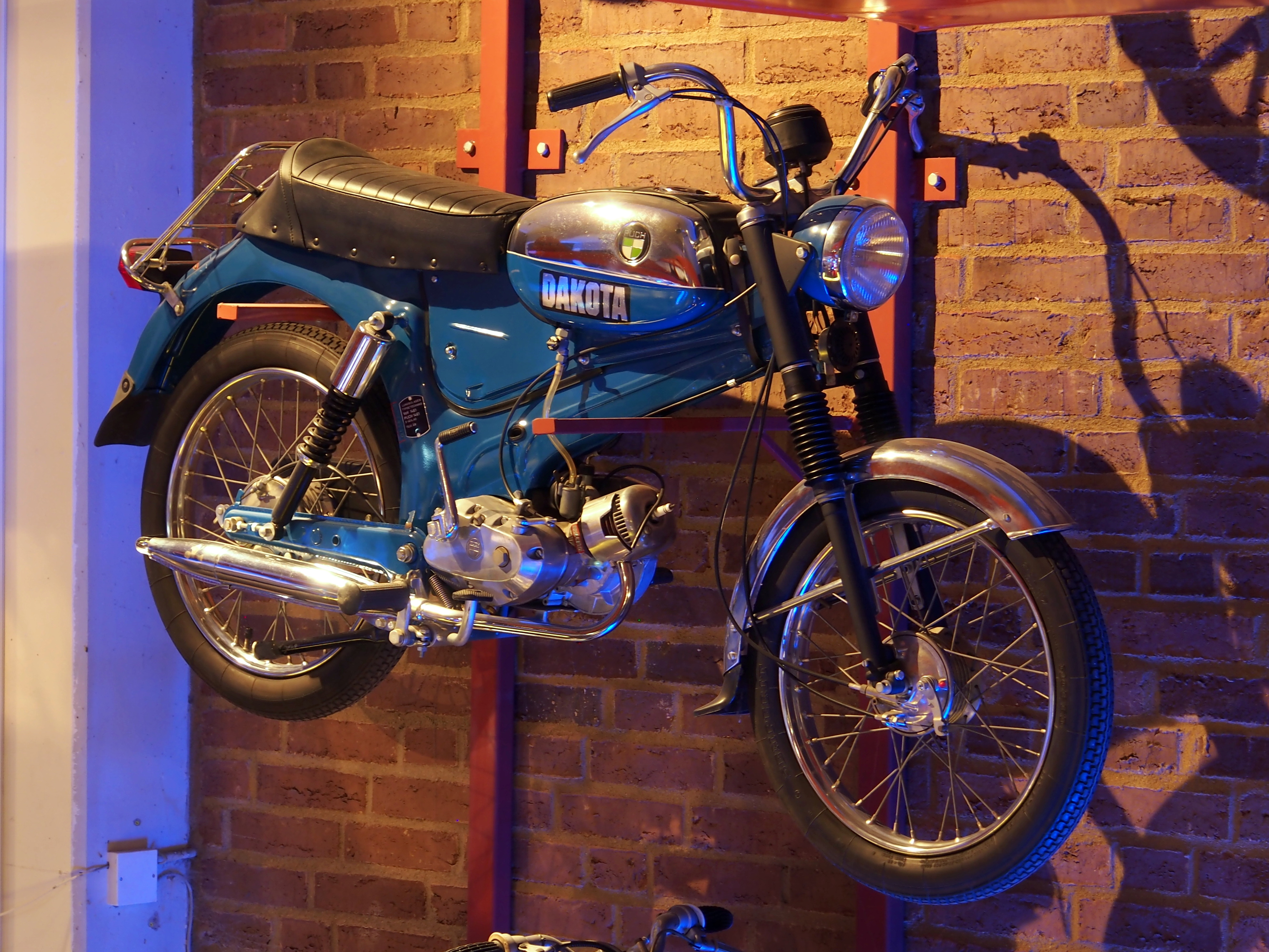 Photographed at Malmö Museer Teknikens och sjöfartens hus (Science and Maritime House) Malmo, Sweden.